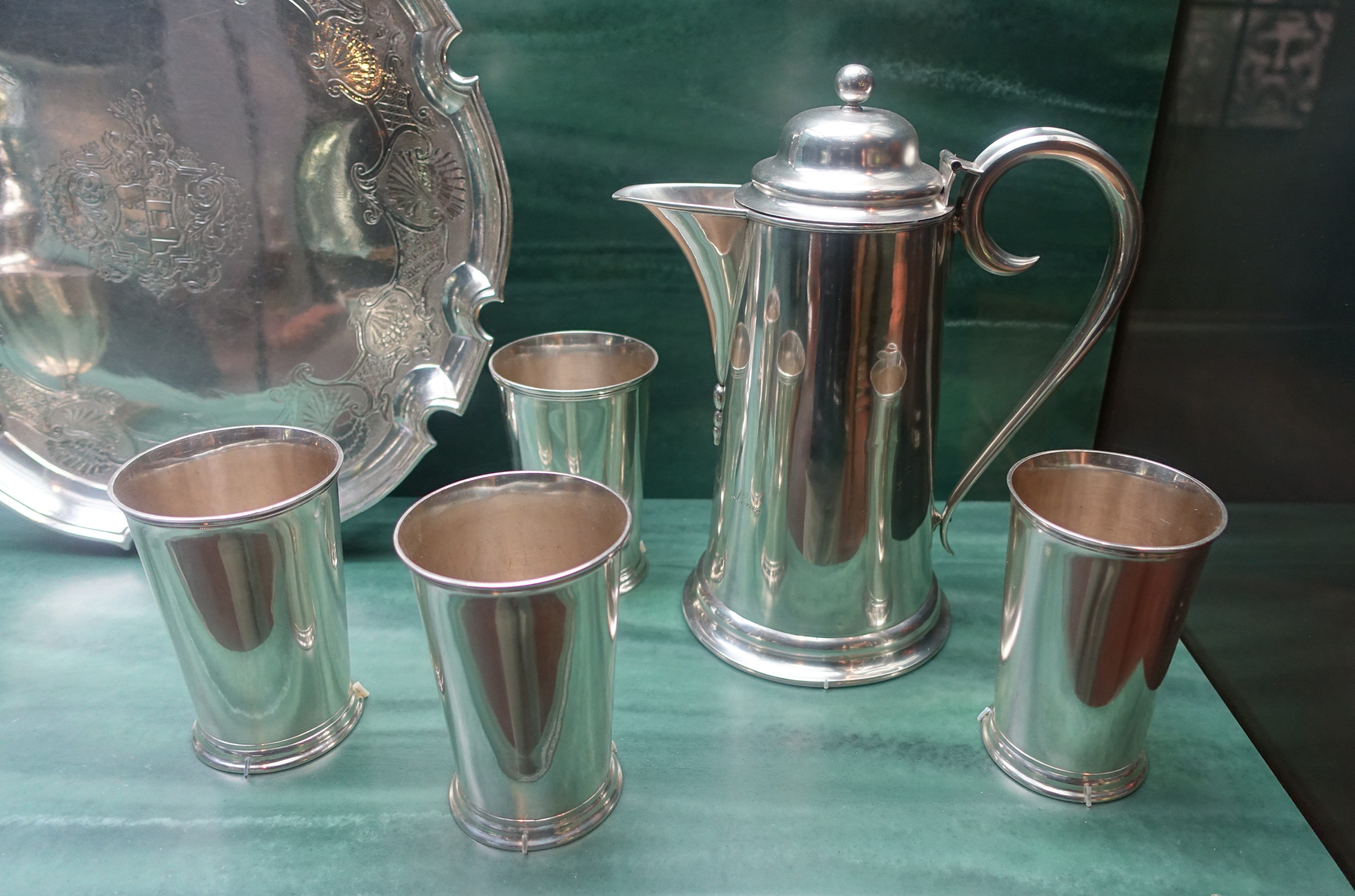 Exhibit in the Fowler Museum - University of California, Los Angeles - Los Angeles, California, USA.